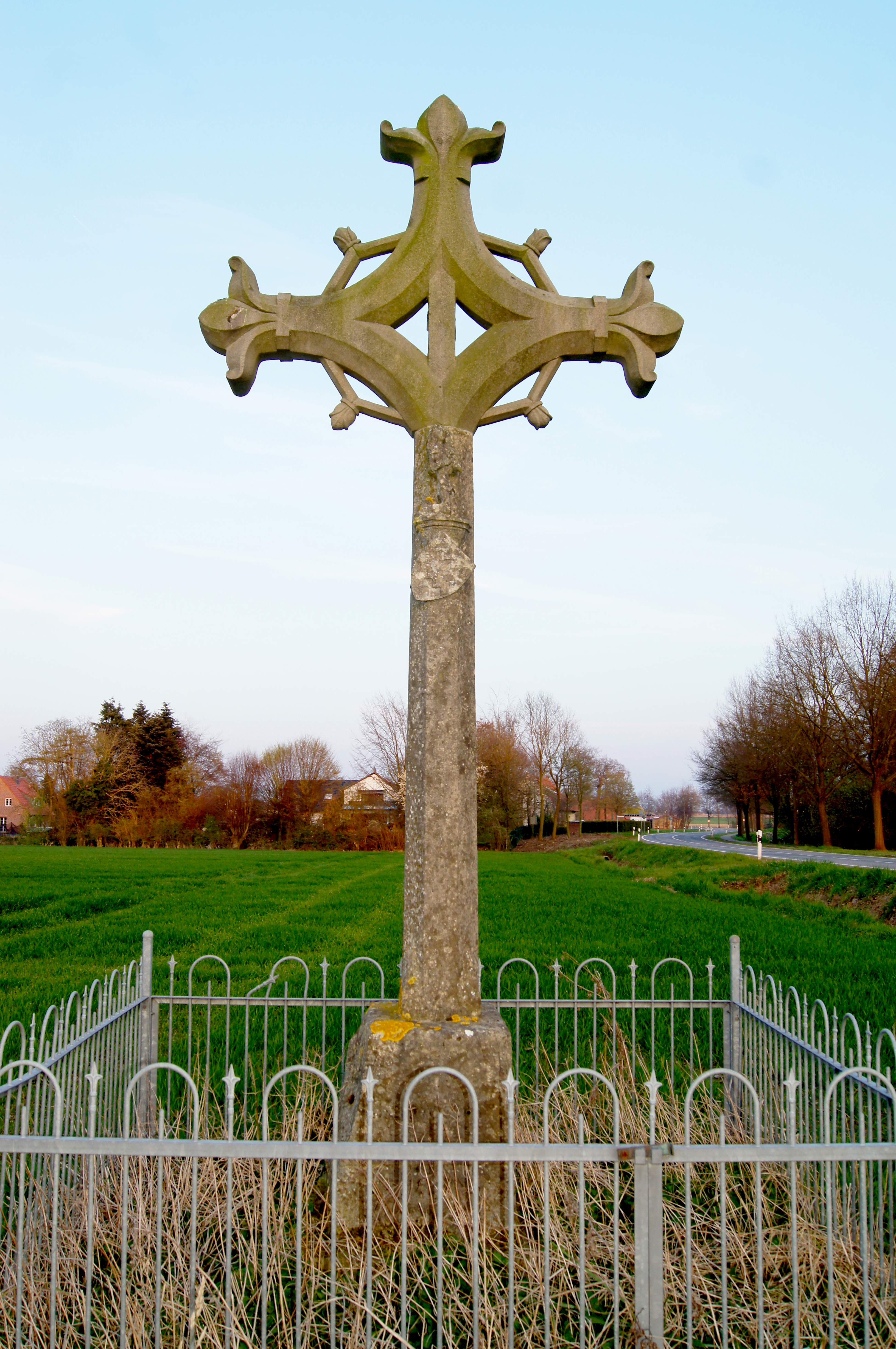 Poppenbecker Kreuz is a stone cross made of Baumberg-limestone in Havixbeck. This is a photograph of an architectural monument.